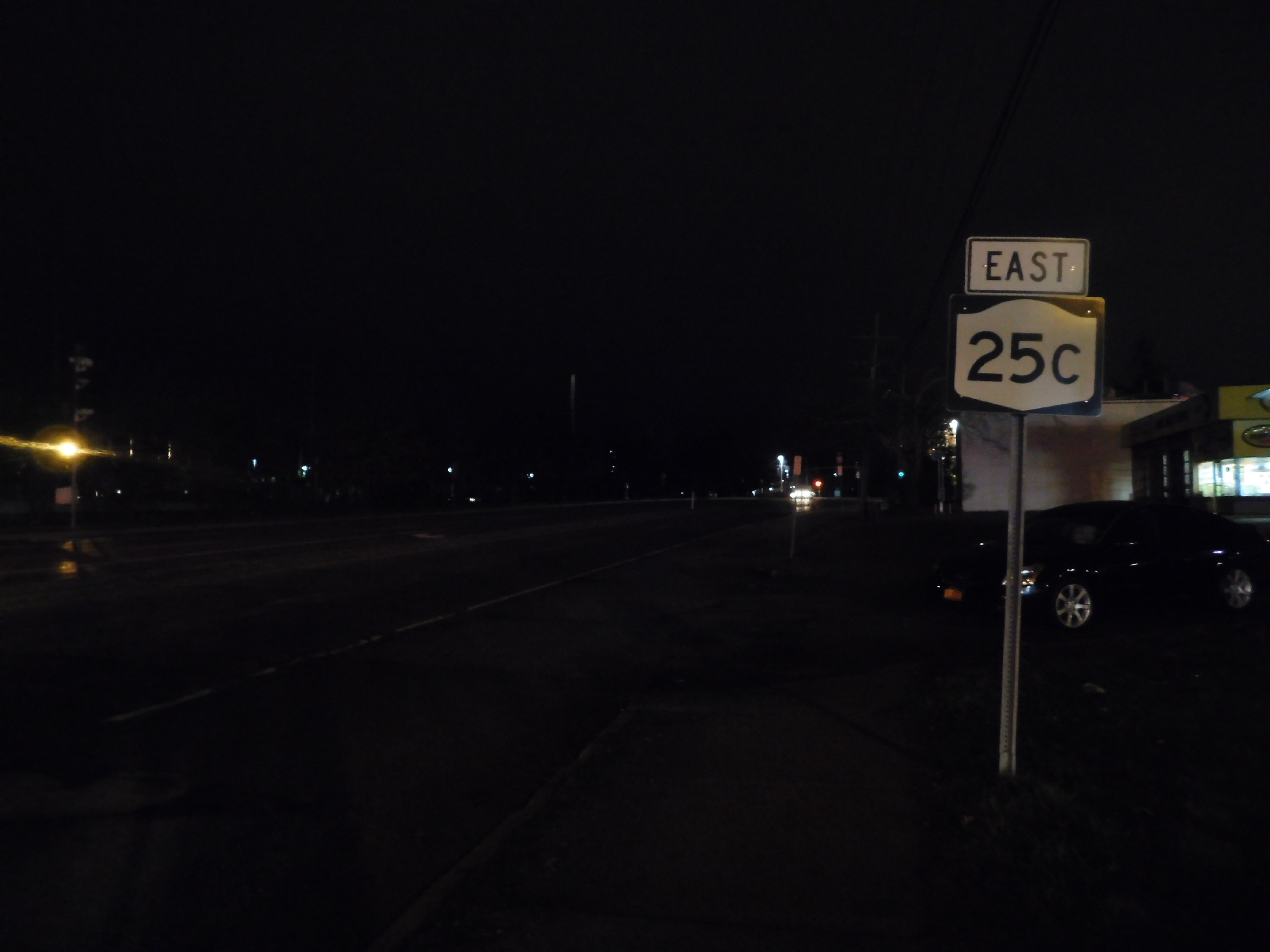 An erroneous signage for New York State Route 25C in Lakeville, New York.